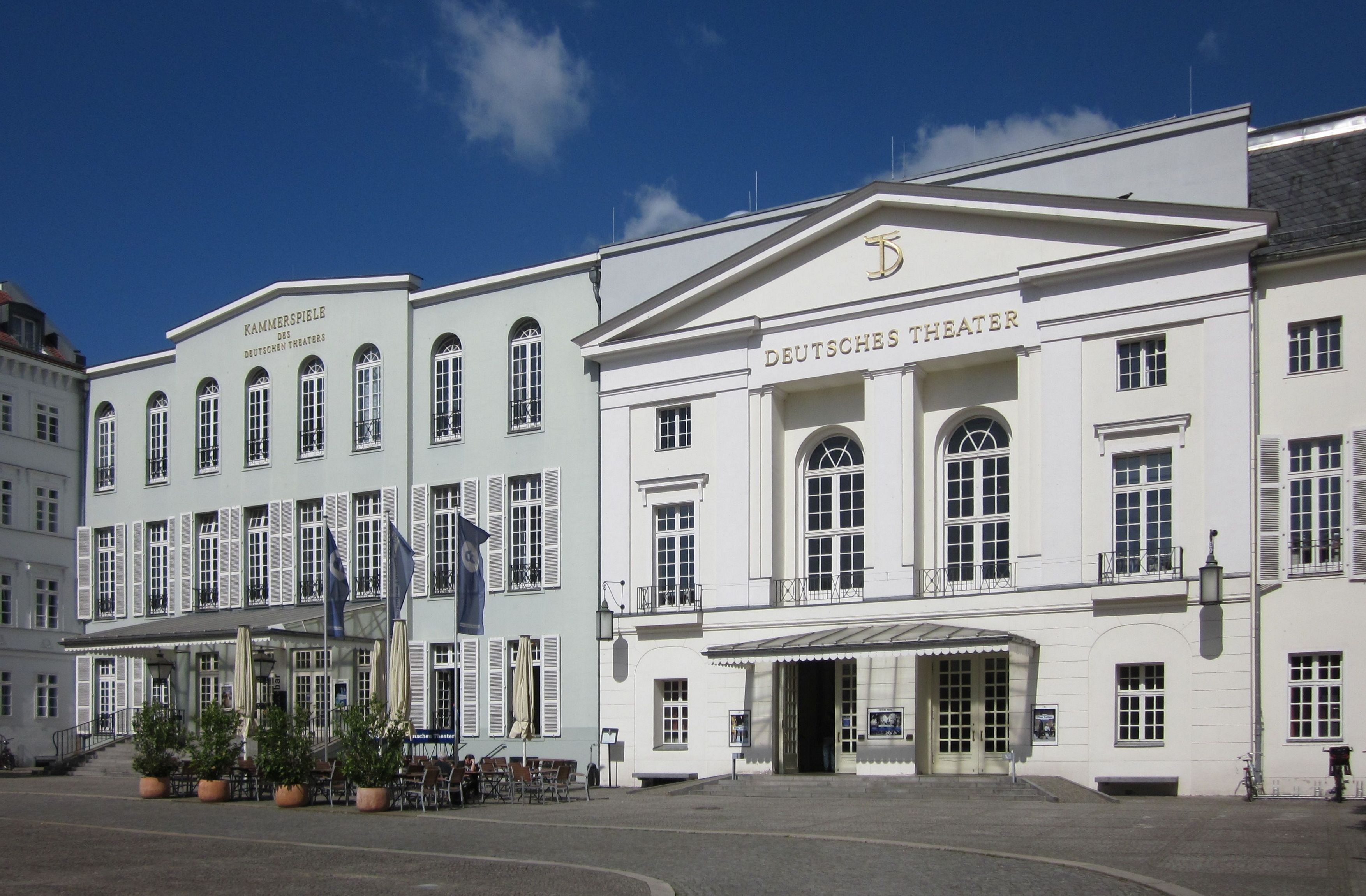 The Deutsches Theater (German Theatre) and Kammerspiele on Schummanstraße in Berlin-Mitte.